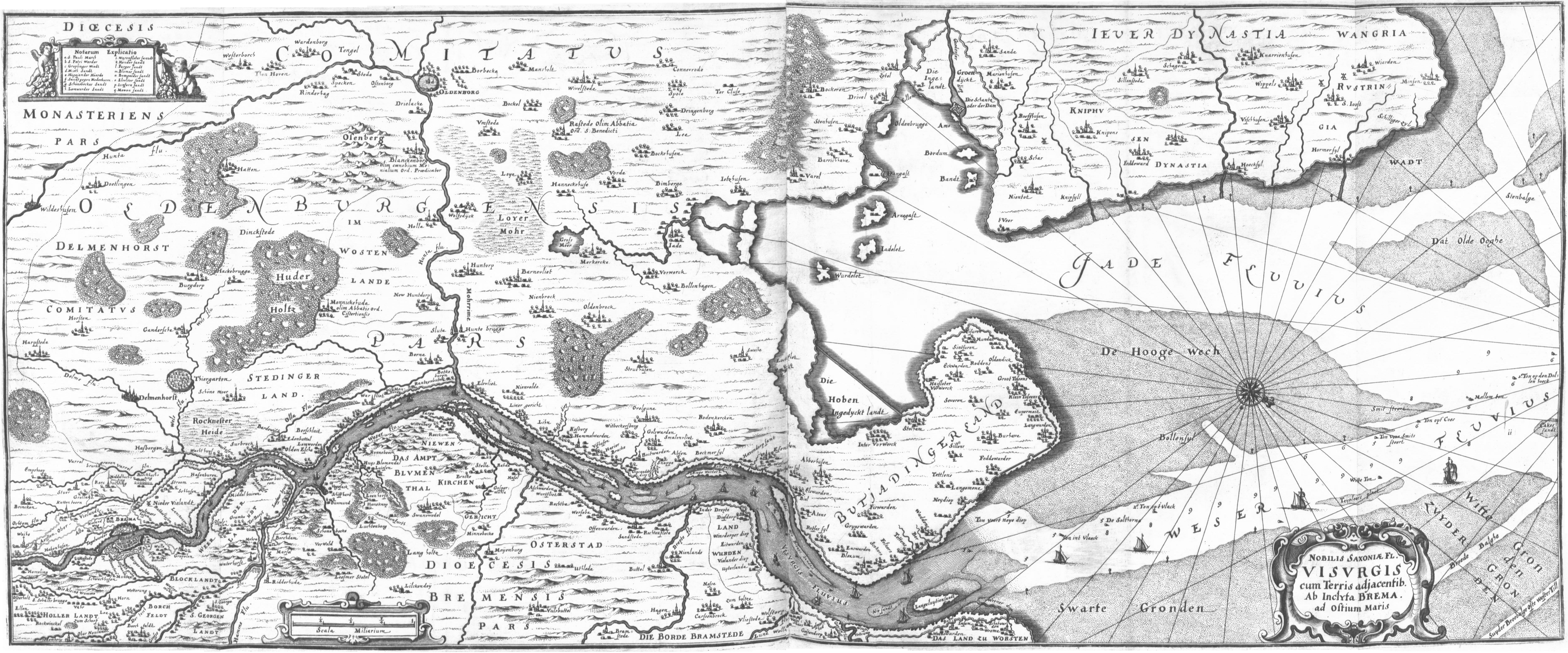 "Saxony's noble river Weser with adjacent territories from incl. Bremen to the mouth", printed probably between 1643 an 1648, incuding Jade Bight